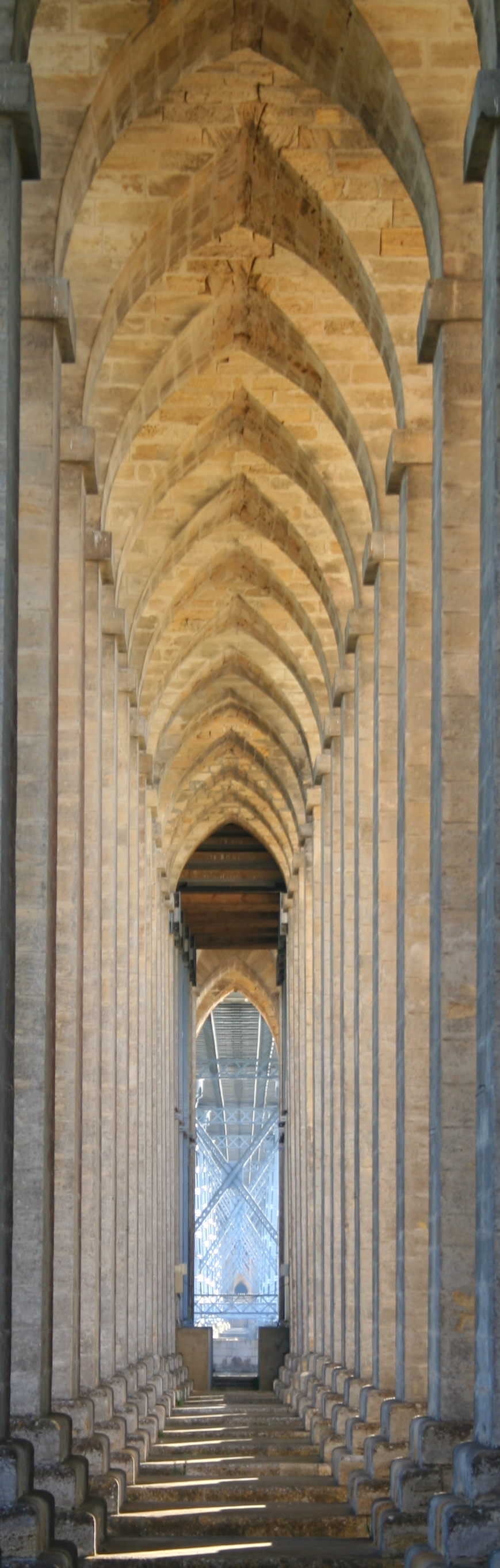 Arches of the Cubzac-les-Ponts road bridge.